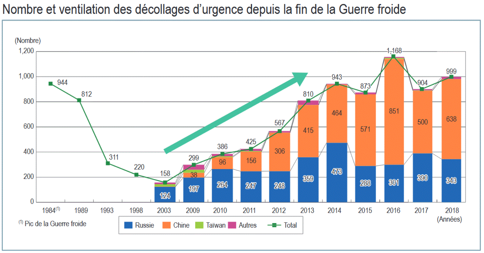 Number of Scrambles (emergency takeoffs) of the Japan Air Self-Defense Force from 1980 to 2019.